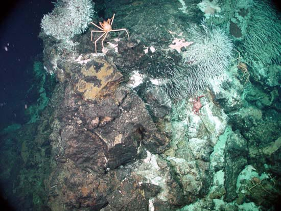 Zooarium chimney, with diffuse flow (lower temperature and not as focused as the anhydrite structures), provides an ideal habitat for vent biota.